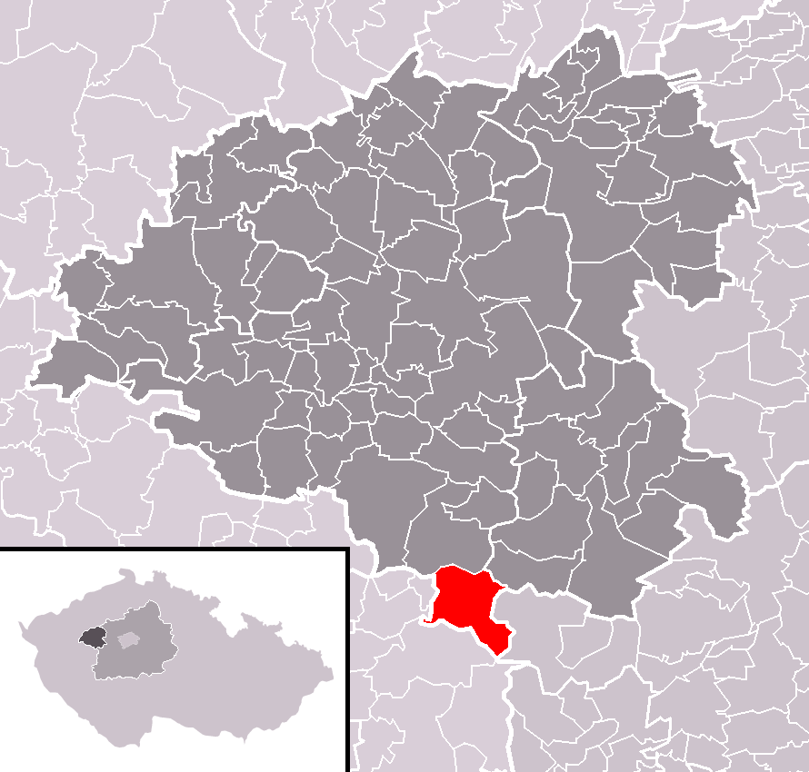 Location of Skryje municipality within Rakovník District and (identical) administrative area of Rakovník as a Municipality with Extended Competence.